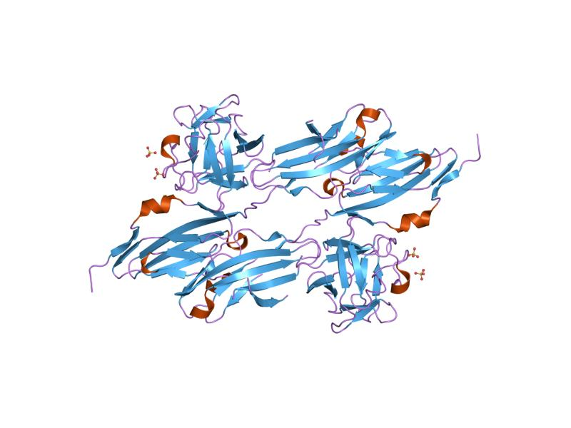 Cartoon representation of the molecular structure of protein registered with 1evt code.